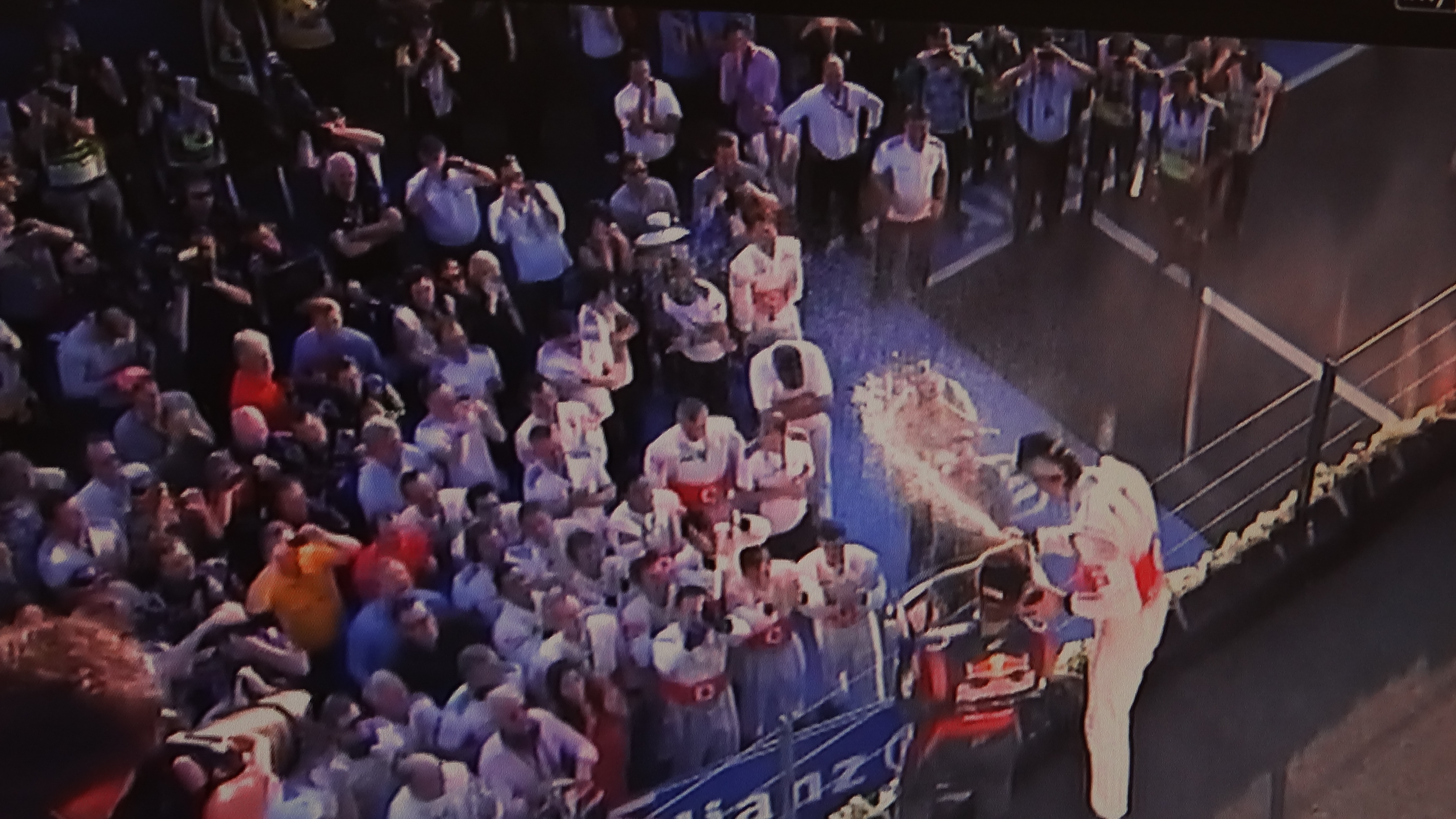 Jenson Button sprays champagne after his win in the 2012 Australian Grand Prix